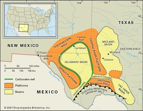 Generalized field map of the Val Verde Basin